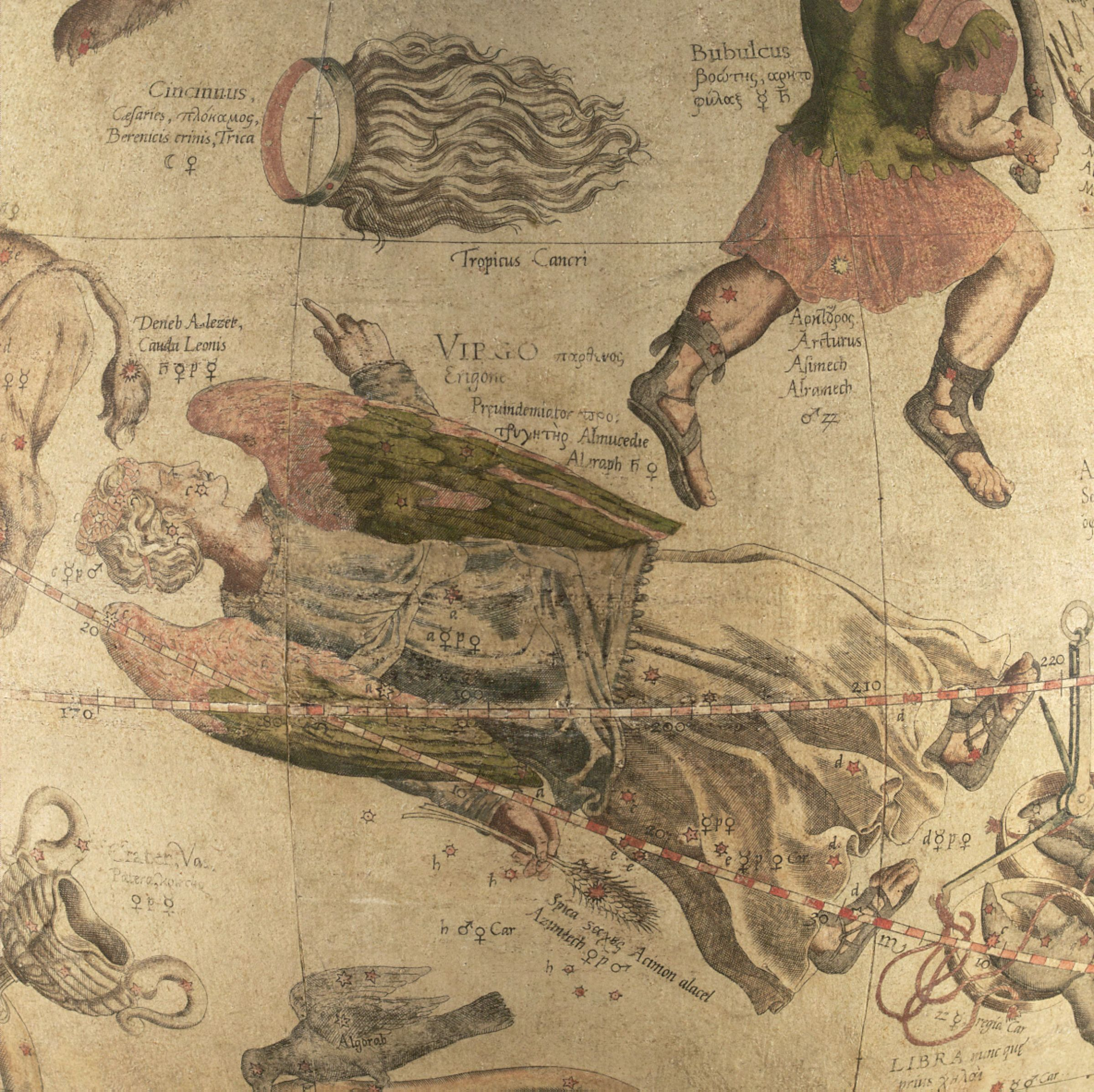 Virgo and Coma_Berenices constellations from the Mercator celestial globe.